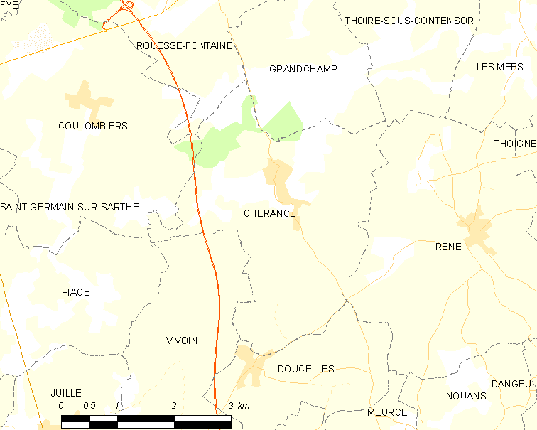 Map of French municipality